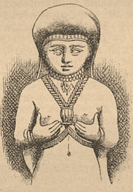 Illustration from Brockhaus and Efron Jewish Encyclopedia (1906—1913)